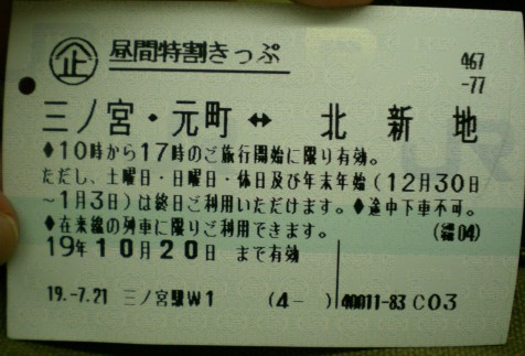 Japanese Train Ticket (JR West Daytime Ticket) (Used ticket) (Expiration ticket)